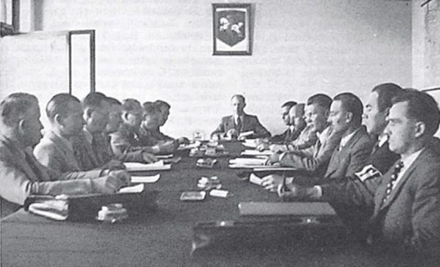 Session of the Provisional Government of Lithuania in Kaunas, Lithuania. The session was chaired by Juozas Ambrazevičius (Brazaitis), from the left: Jonas Matulionis, Juozas Senkus, Balys Vitkus, Pranas Vainauskas, Vytautas Landsbergis (Žemkalnis), Ksaveras Vencius, Vytautas Grudzinskas. From the right: Jonas Šlepetys, Stasys Raštikis, Adolfas Damušis, Juozas Pajaujis, Antanas Novickis, Leonas Prapuolenis, Mečislovas Mackevičius.